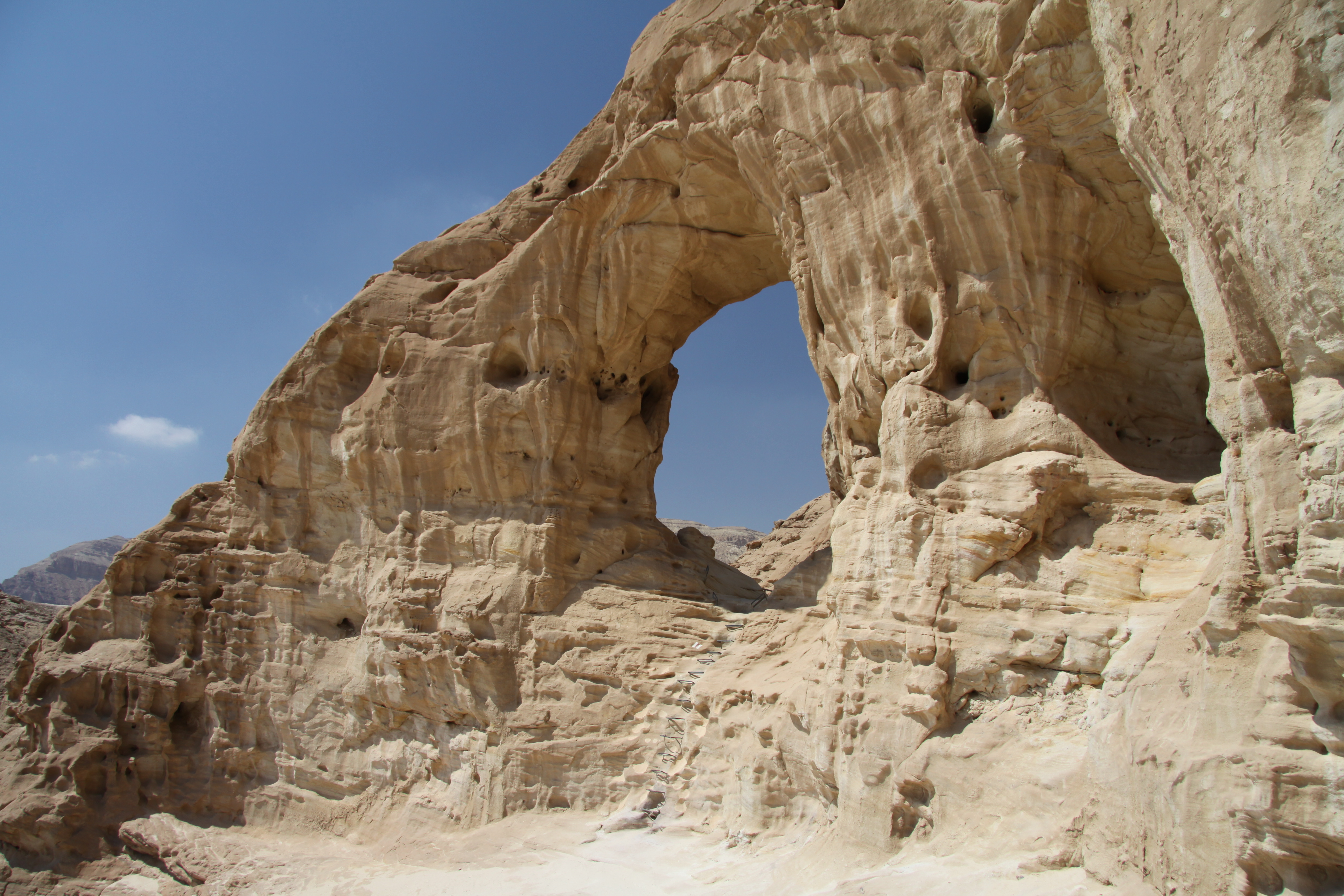 Natural arches in Timna Park, Southern Israel